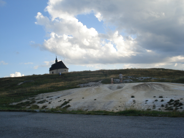 Siva Brada SVK